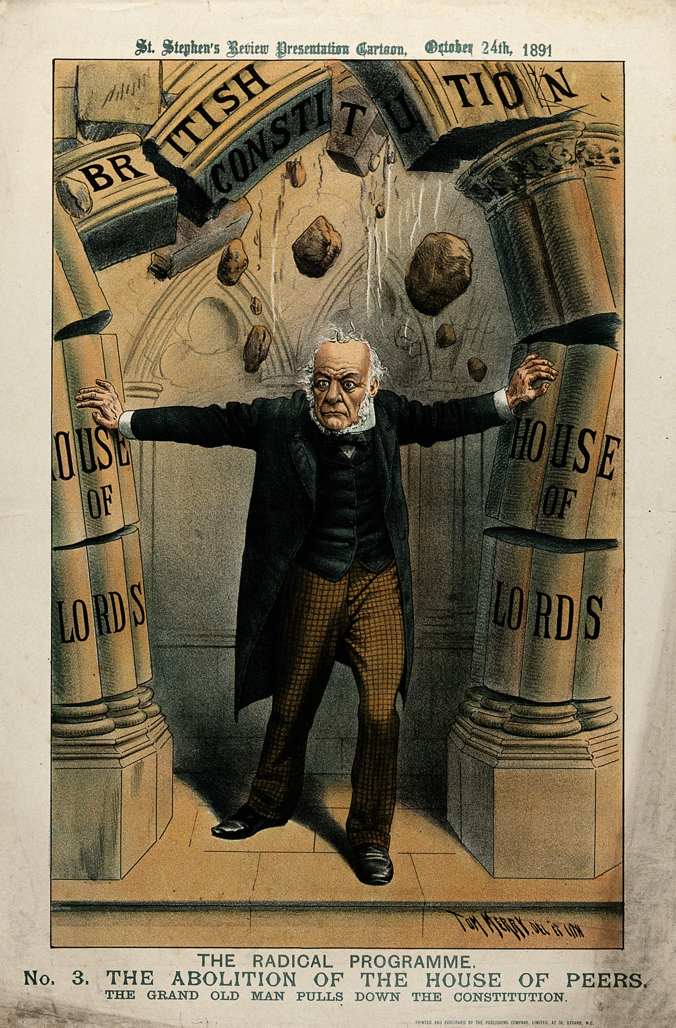 A political cartoon showing William Gladstone destroying the pillars supporting a building on which is inscribed "British Constitution" "The radical programme, no. 3: the abolition of the House of Peers" Iconographic Collections Keywords: England; William Ewart Gladstone; Satire; Politician; Cartoon; Tom Merry